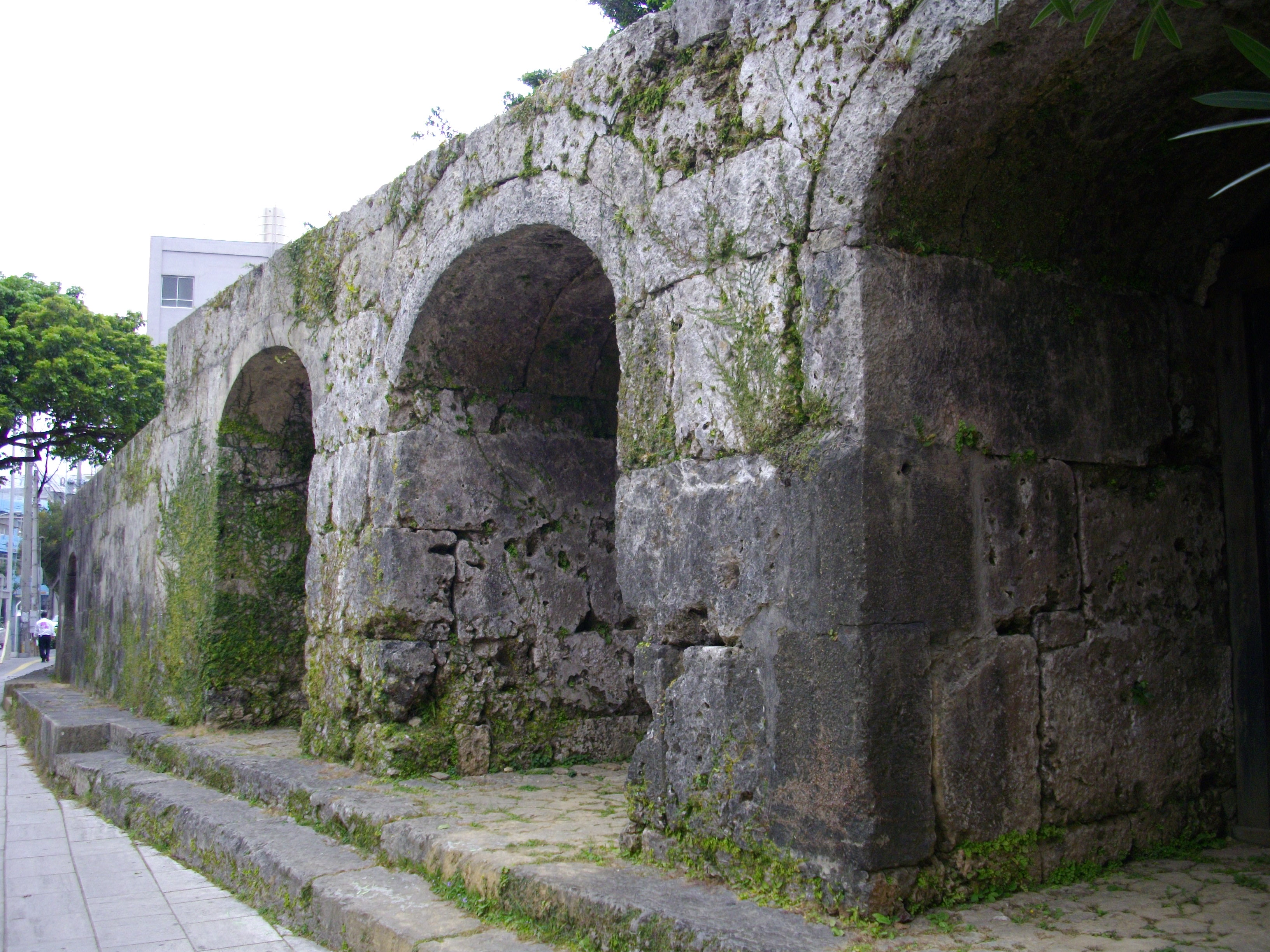 Stone gates to Sōgen-ji in Naha, Okinawa. Photo taken by LordAmeth.